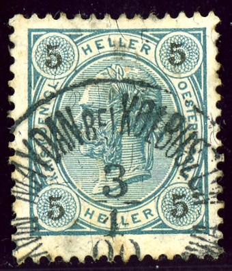 Austrian KK stamp, 5 heller bilingual cancelled at MAYDAN bei KOLBUSCHOW in 1900 (Galicia, Poland)